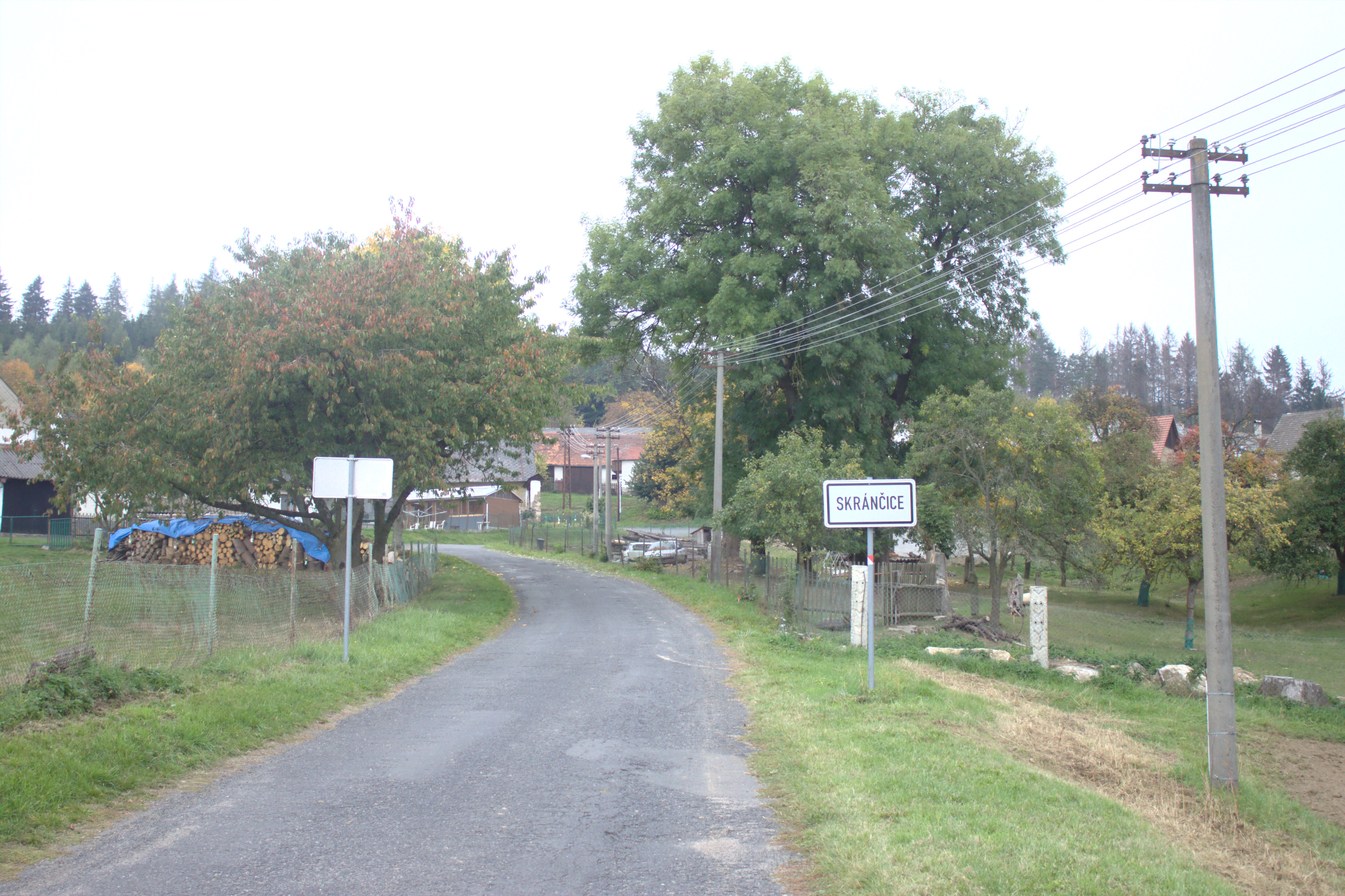 A road in the village of Skránčice, Plzeň Region, CZ